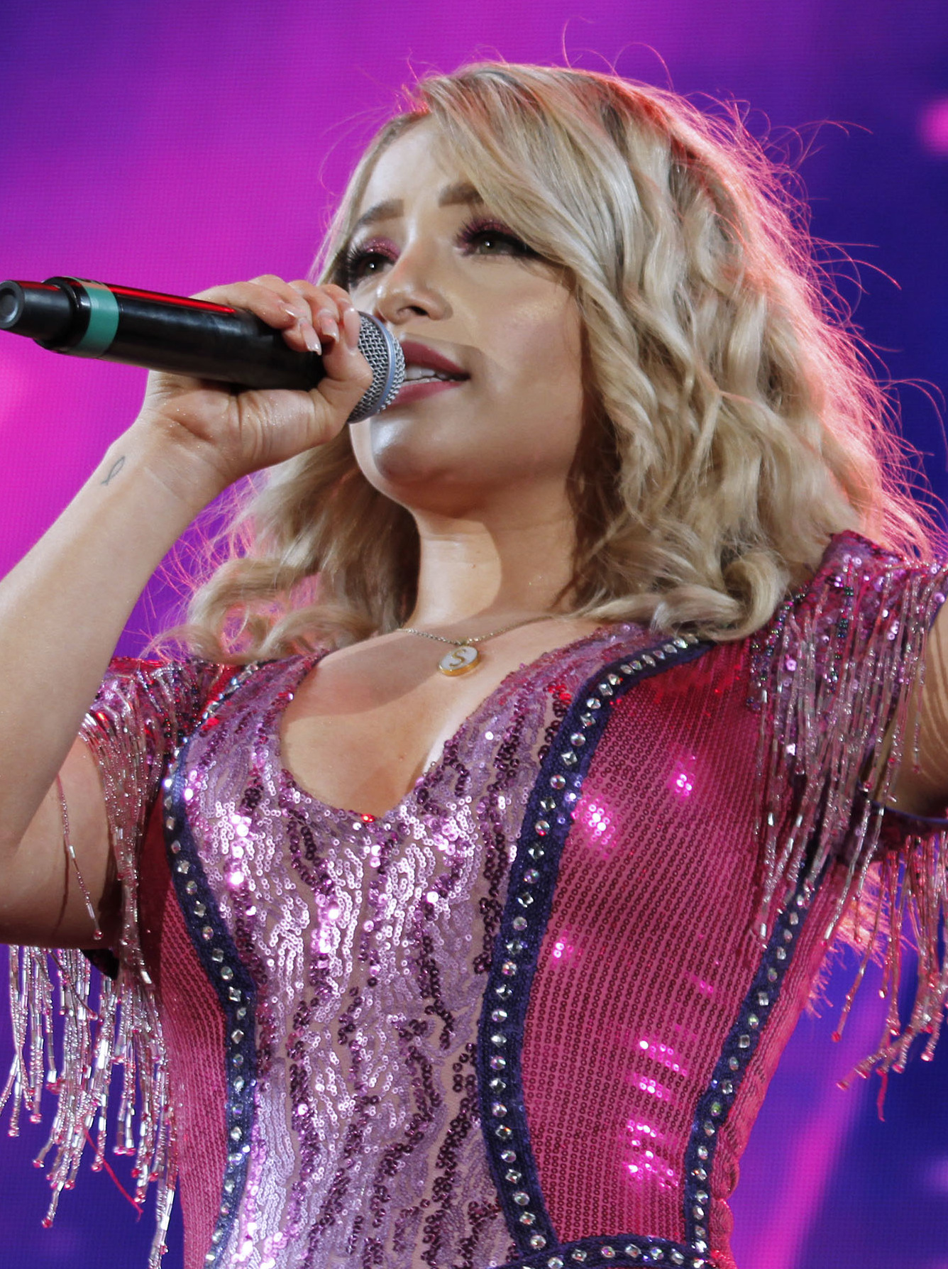 Martes 31 de diciembre de 2019 En la Glorieta de la Palma se realizó el Gran Festejo de Fin de Año, con la participación de La Sonora Dinamita. Fotografía: Maritza Ríos / Secretaría de Cultura de la Ciudad de México